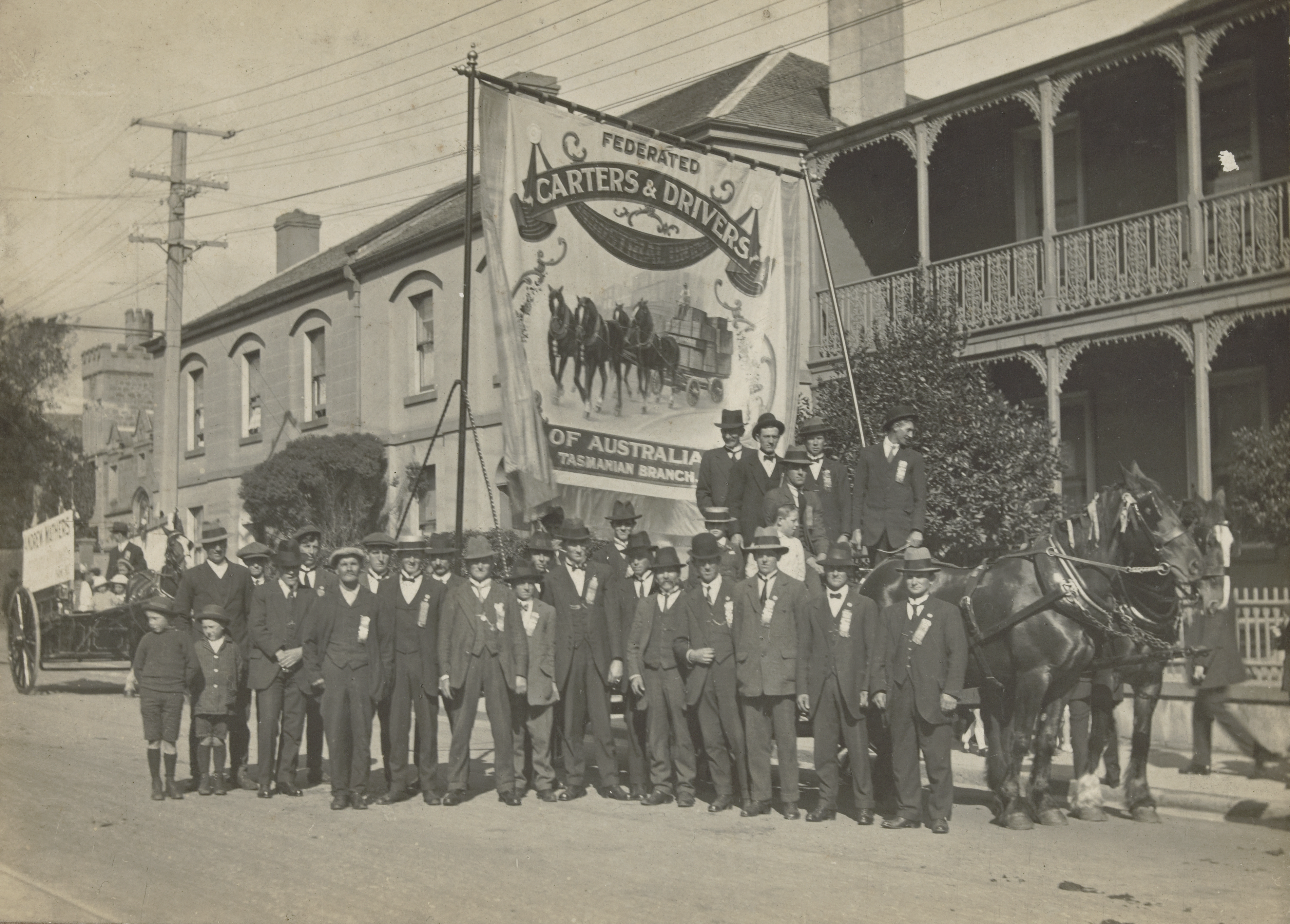 A photograph of members of the Tasmanian branch of the Federated Carters and Drivers Industrial Union of Australia gathered for a Eight Hour Day Parade, circa 1920.